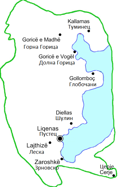 Map of Pustec